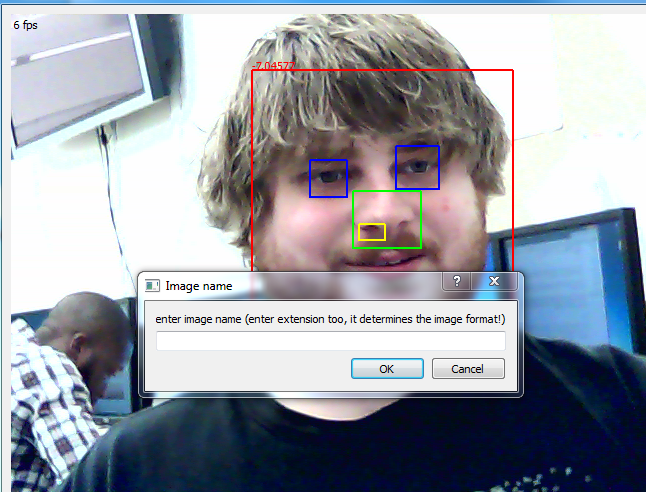 Screen capturing using the visual control software